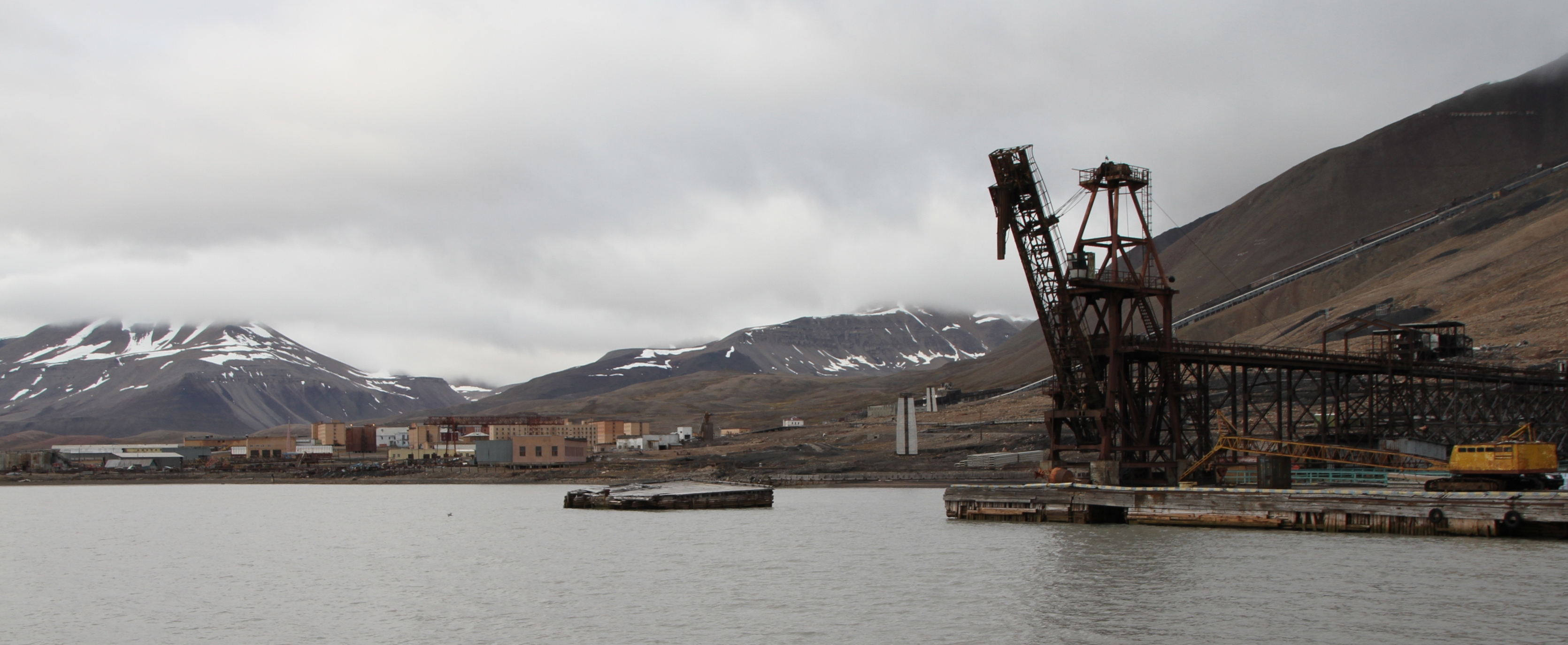 Photo of parts of the russian (-1998) mining community of Piramida (Pyramiden9, Billefjorden, Dickson Land, central Spitsbergen.